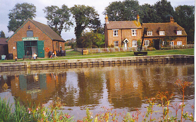 Dapdune Wharf. An old wharf on the River Wey in Guildford, now owned by the National Trust. There is a museum in the building on the left. On the right is an old crane and old cottage.